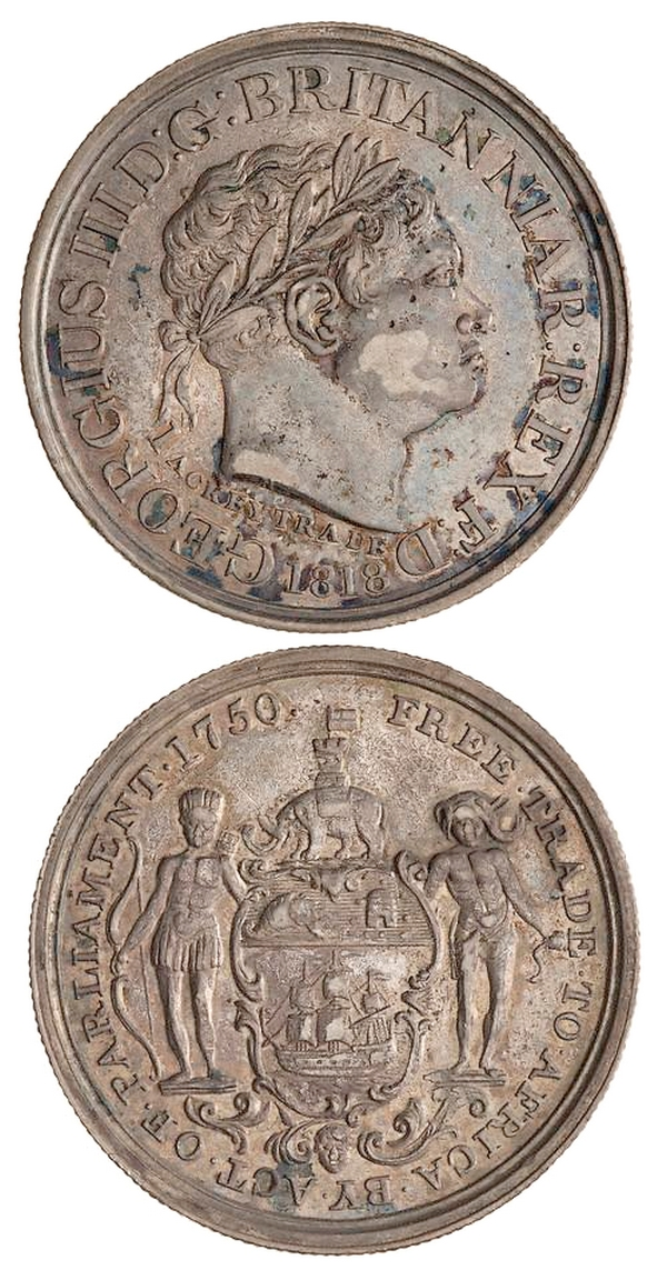 1 Ackey, Issued by African Company of Merchants, Gold Coast, Ghana, 1818, minted by Sir Edward Thompson, Birmingham, England. Argent, diamètre 33 mm, poids 13,88 g. Victoria Museum, Victoria, Australie.